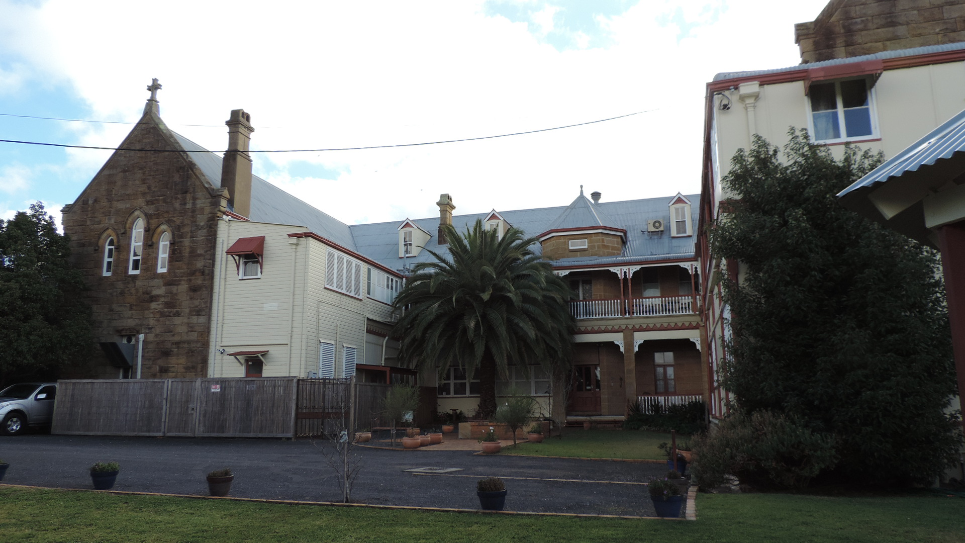 Our Lady of Assumption Convent, Warwick, 2015 - rear view